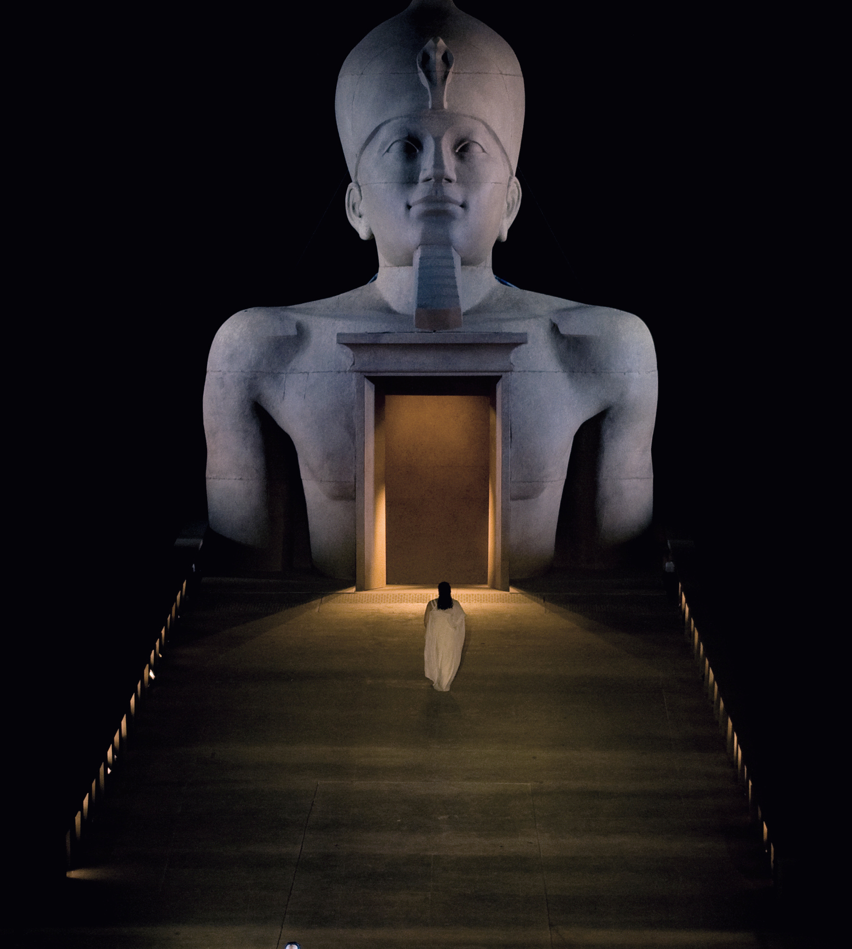 Aida at Masada אאידה במצדה 2011 The Israel Opera at Masada Conductor Daniel Oren Director Charles Roubaud Set Designer Emmanuelle Favre Costume Designer Denise (Katia) Duflot Sound Designer Bryan Grant Lighting Designer Avi